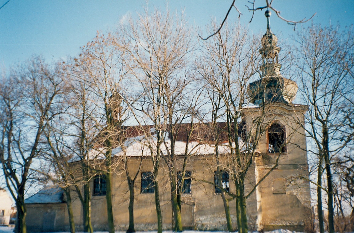 Church of the Visitation of Our Lady in Letov